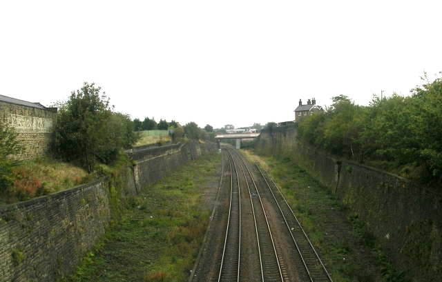 View from Bridge LBE2-39 - Sticker Lane